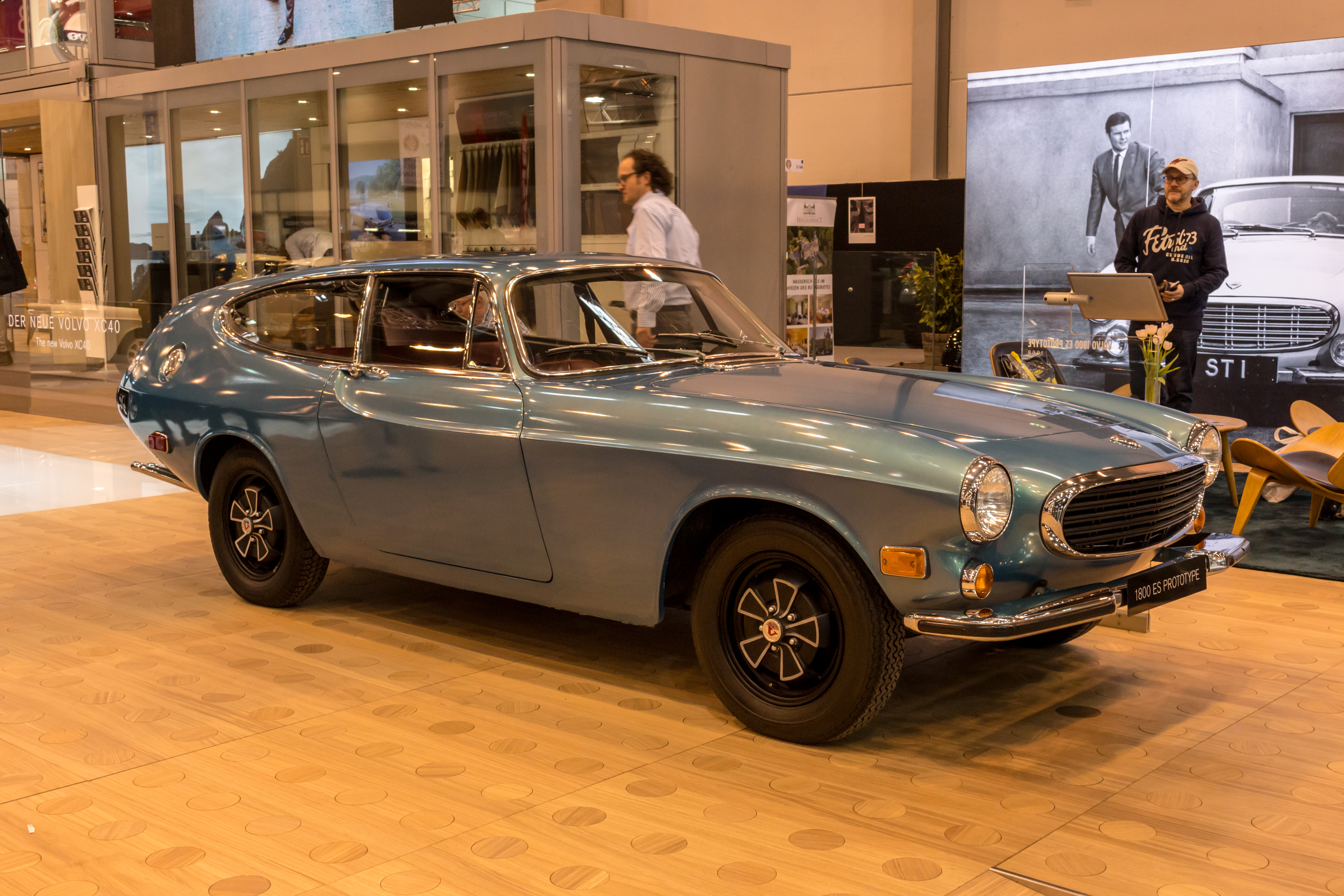 Techno Classica 2018, Essen